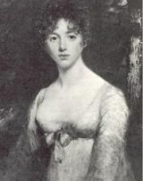 Lady Caroline Lamb